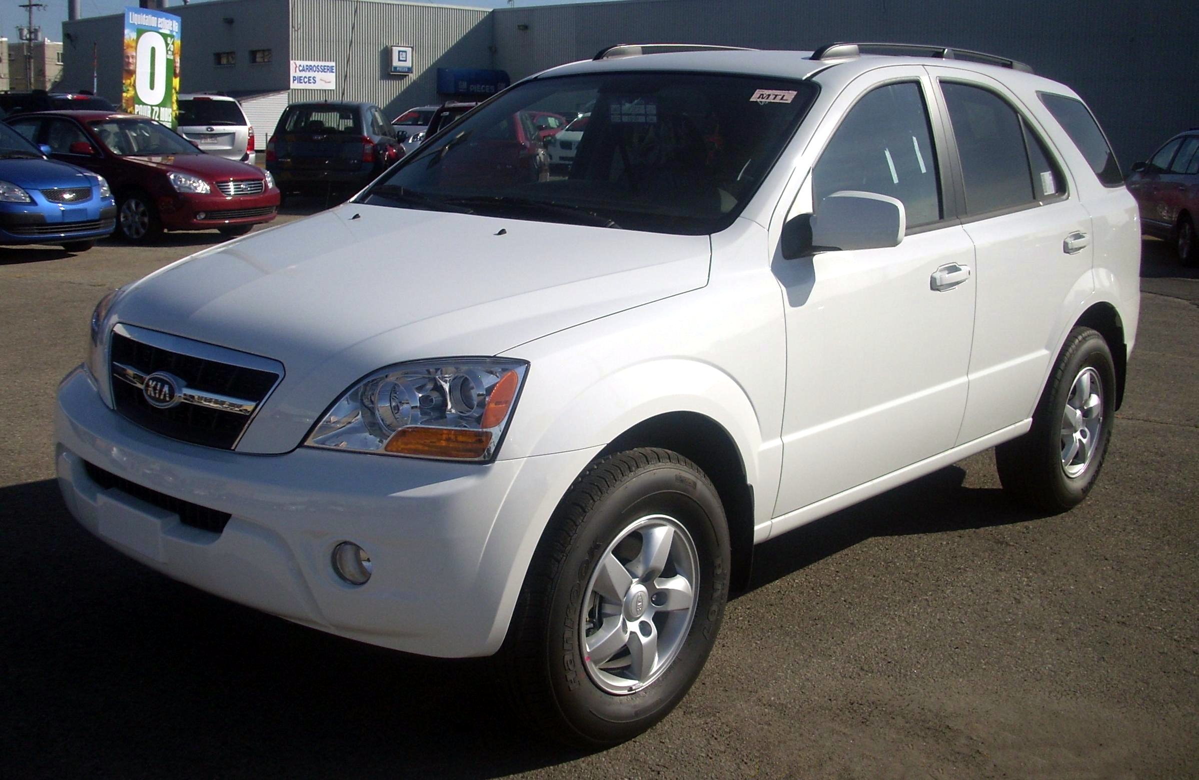 2009 Kia Sorento photographed in Montreal, Quebec, Canada.